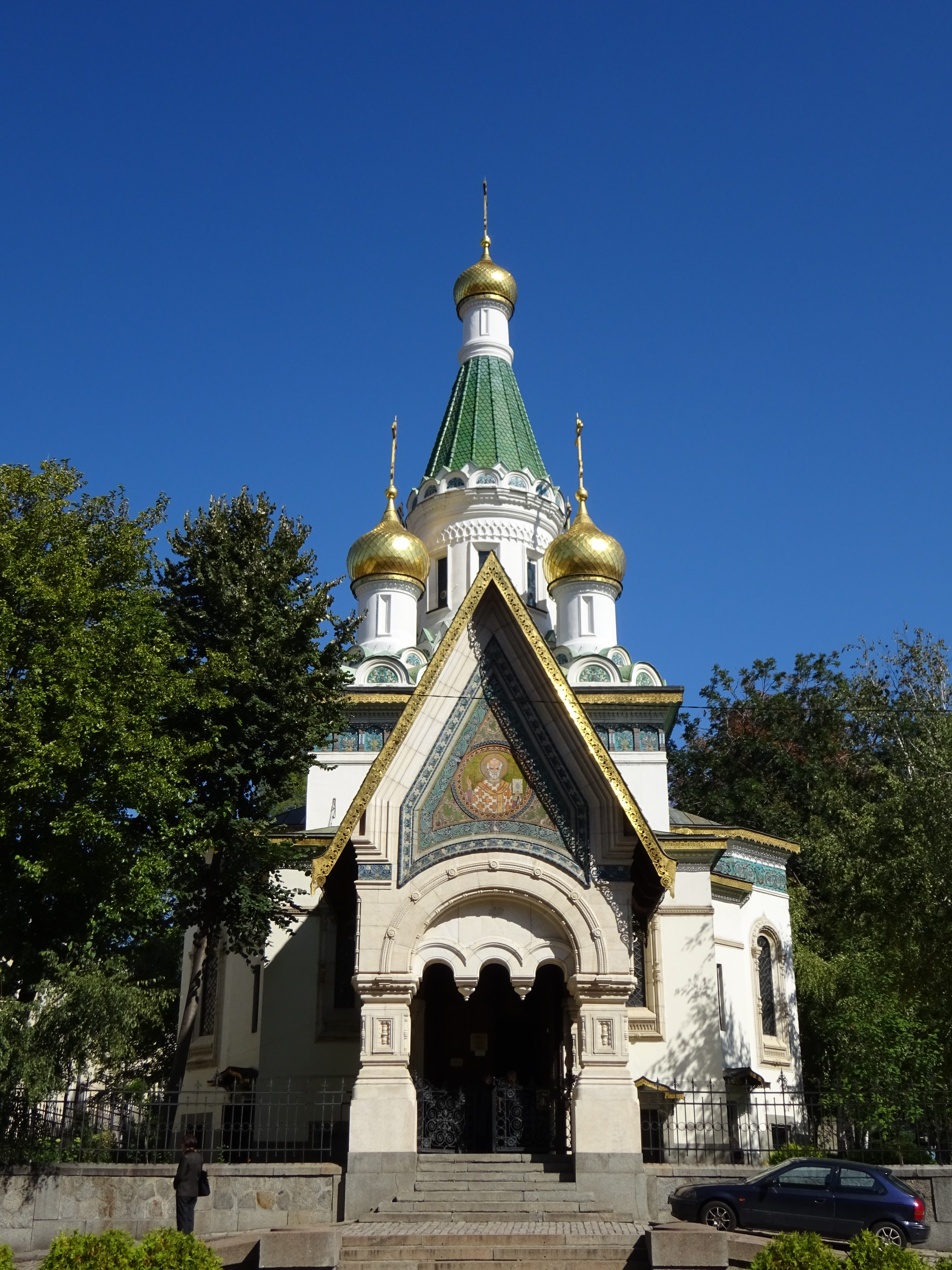 Russian Church in Sofia, Sweta Nikolay